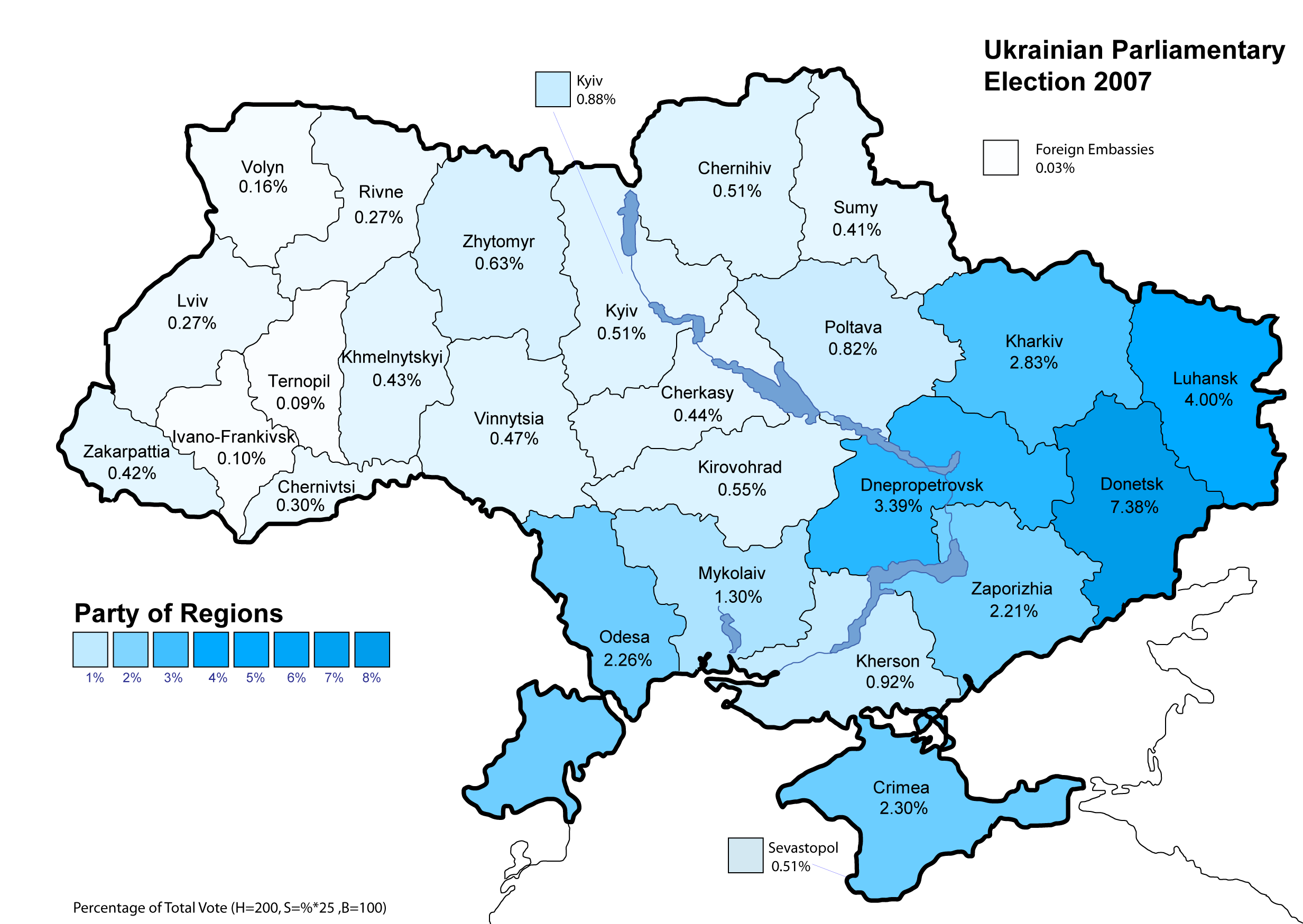 Ukrainian Parliamentary Election 2007 (Party of Regions (PoR) per region - percentage of total national vote) (H=200, S=%*25, B=100) Improved label alignment and cleaner graphics